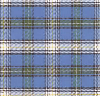 Clan MacDowall Tartan